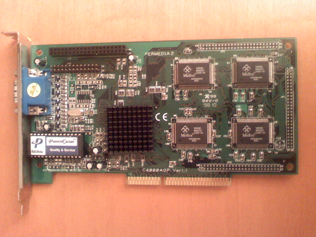 3Dlabs Permedia 2 AGP video card, 8 MB onboard RAM